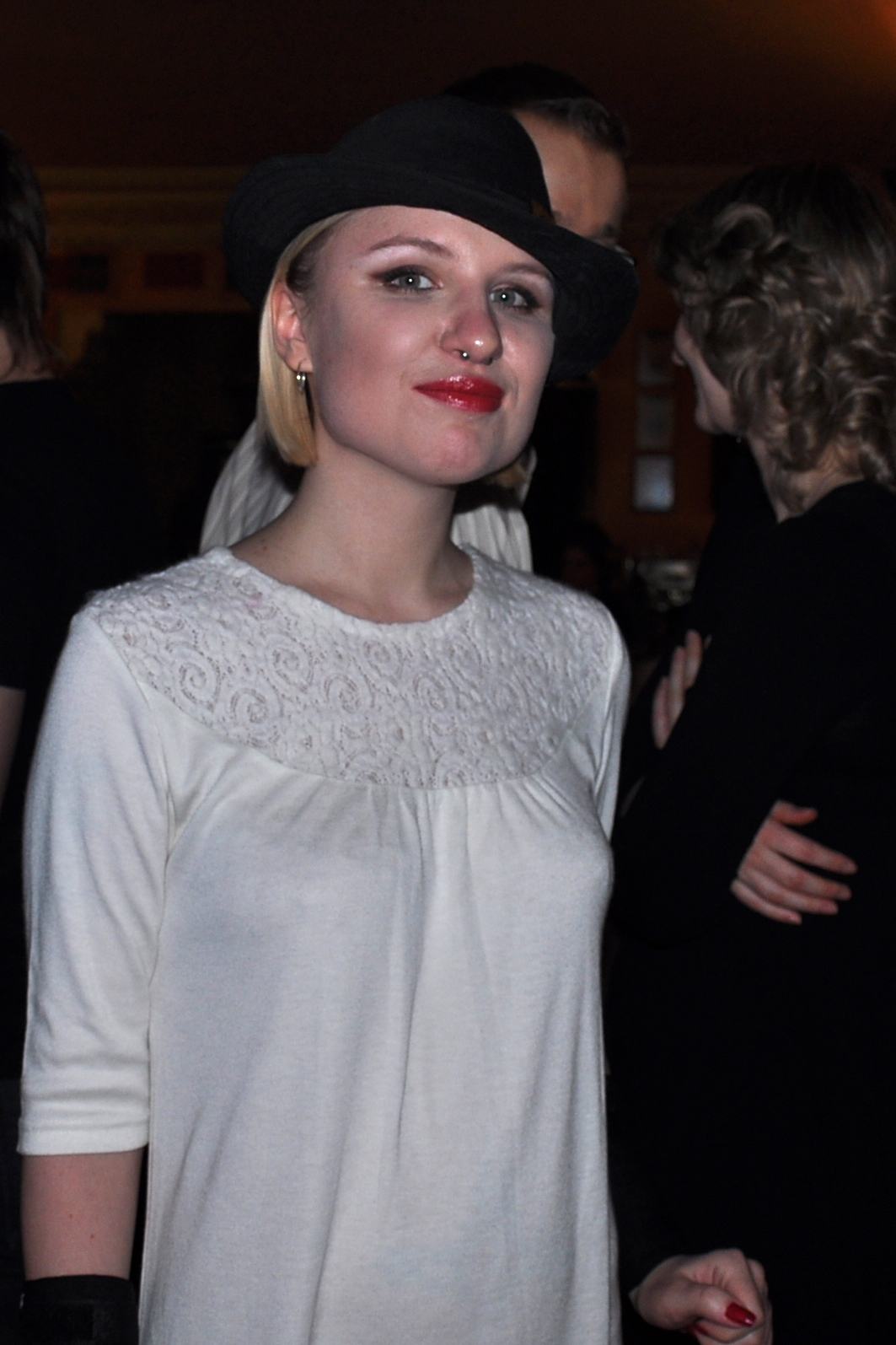 Valeriya Gai Germanika, Russian film director